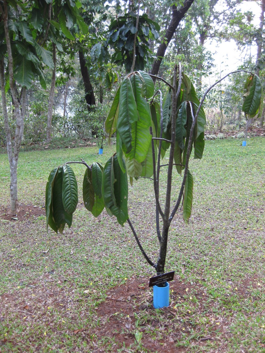 Photographed at the Queen Sirikit Botanic Garden (Chiang Mai Province, Thailand) in March